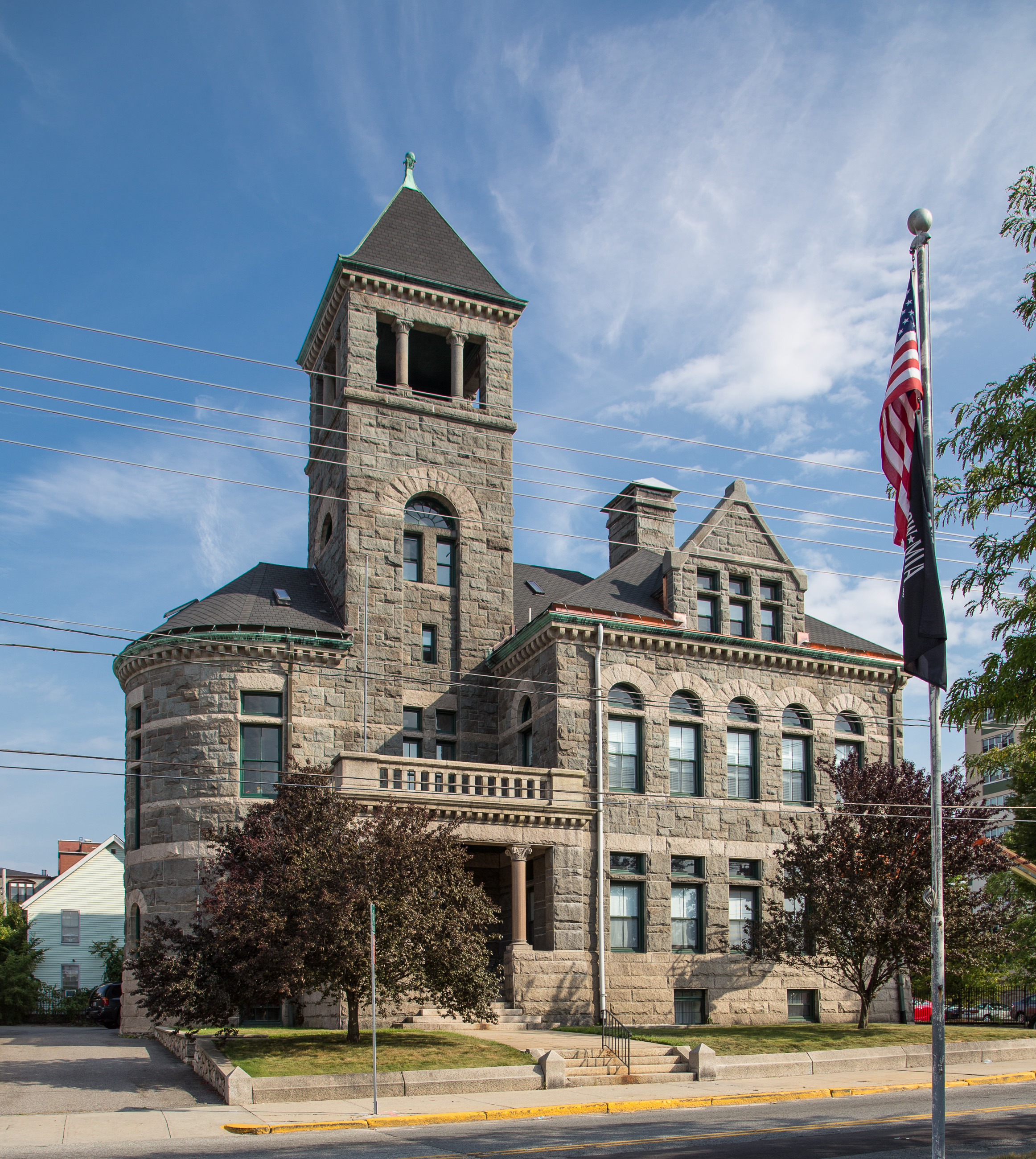 Woonsocket District Courthouse, Woonsocket, Rhode Island. 2015.